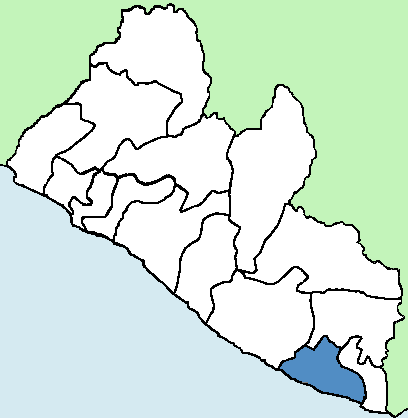 Map showing location of Grand Kru County in Liberia